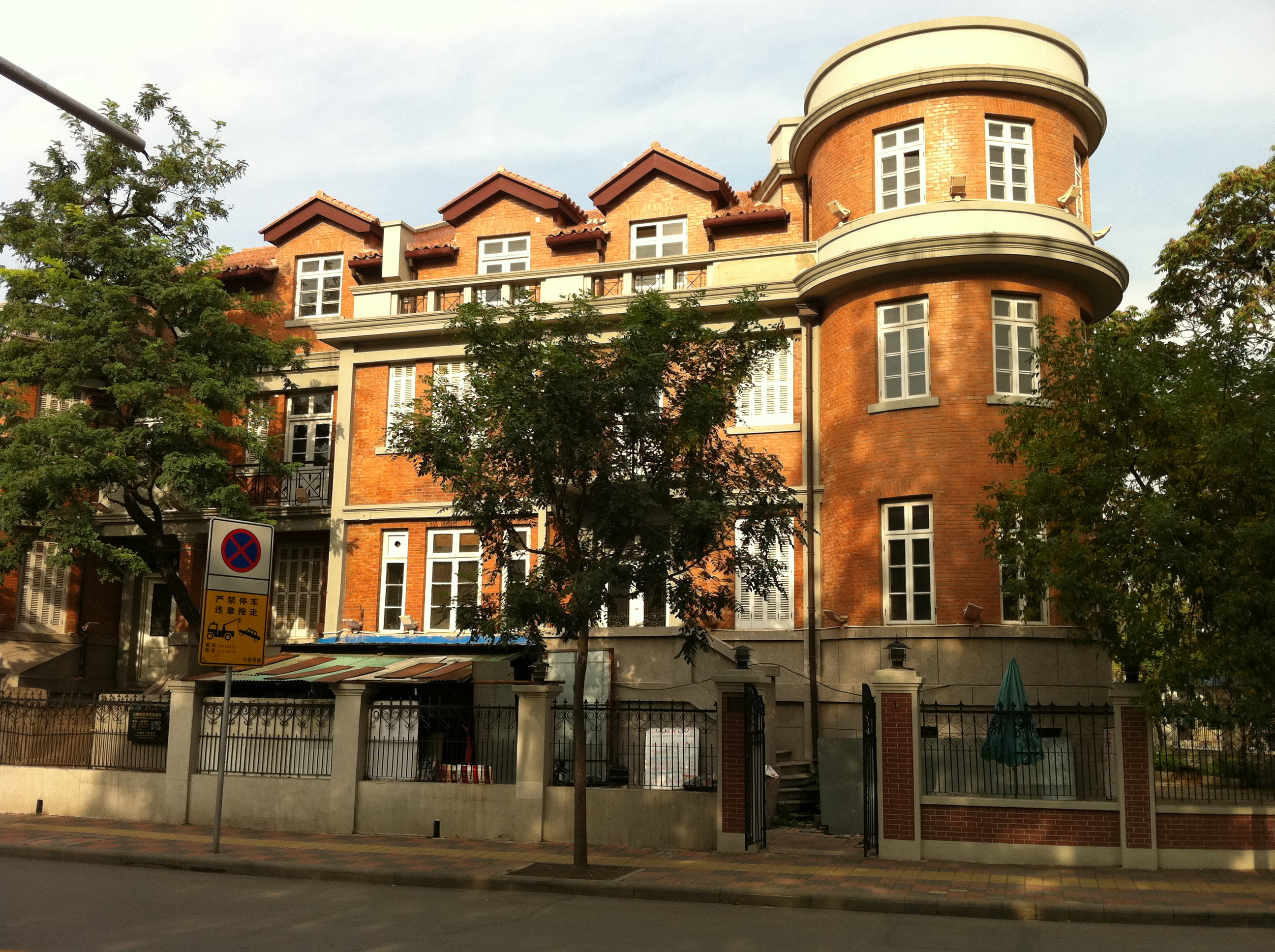 Xinhua Lu No. 259-261